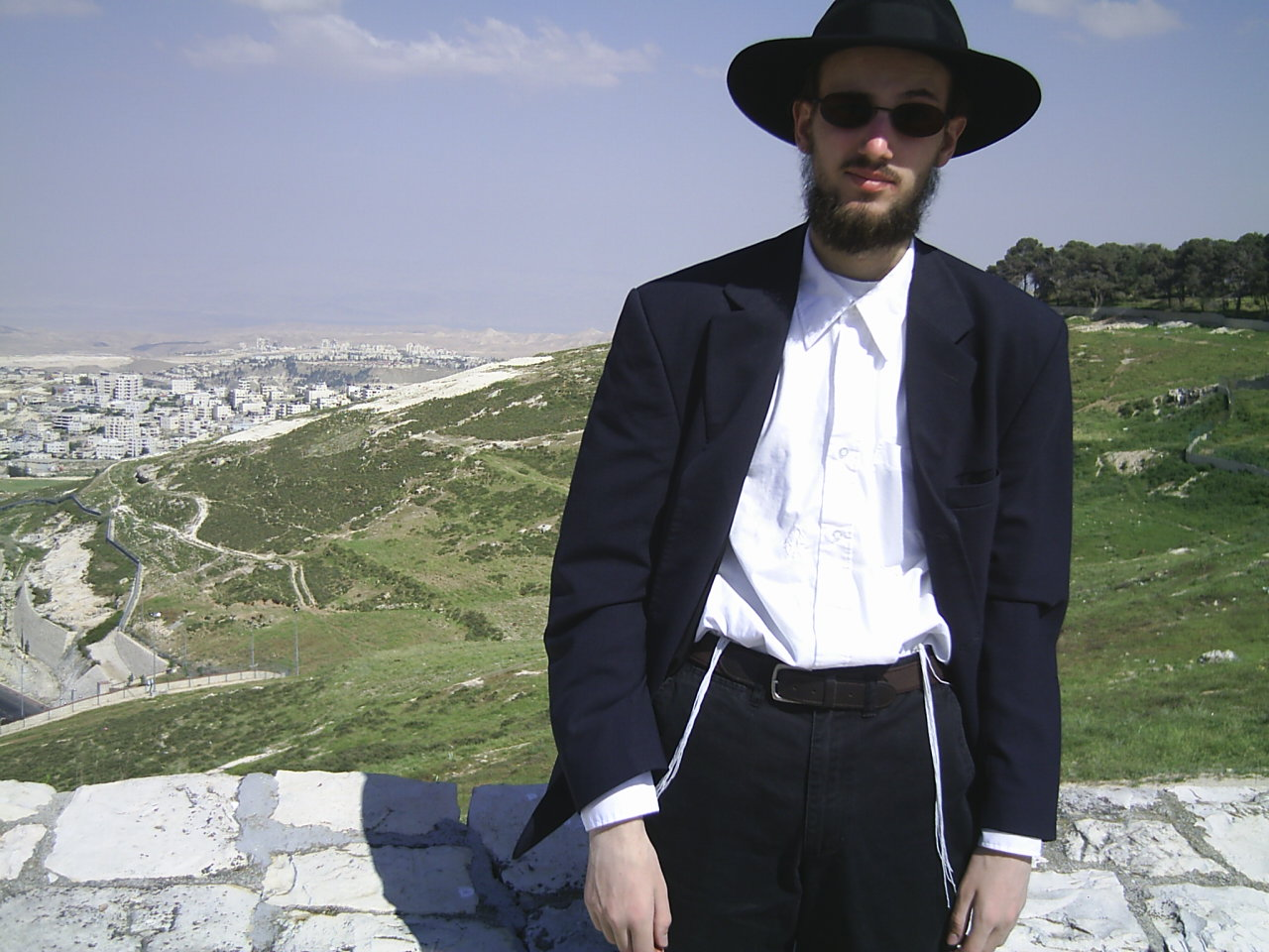 Own photo (well, made by someone else, obviously).